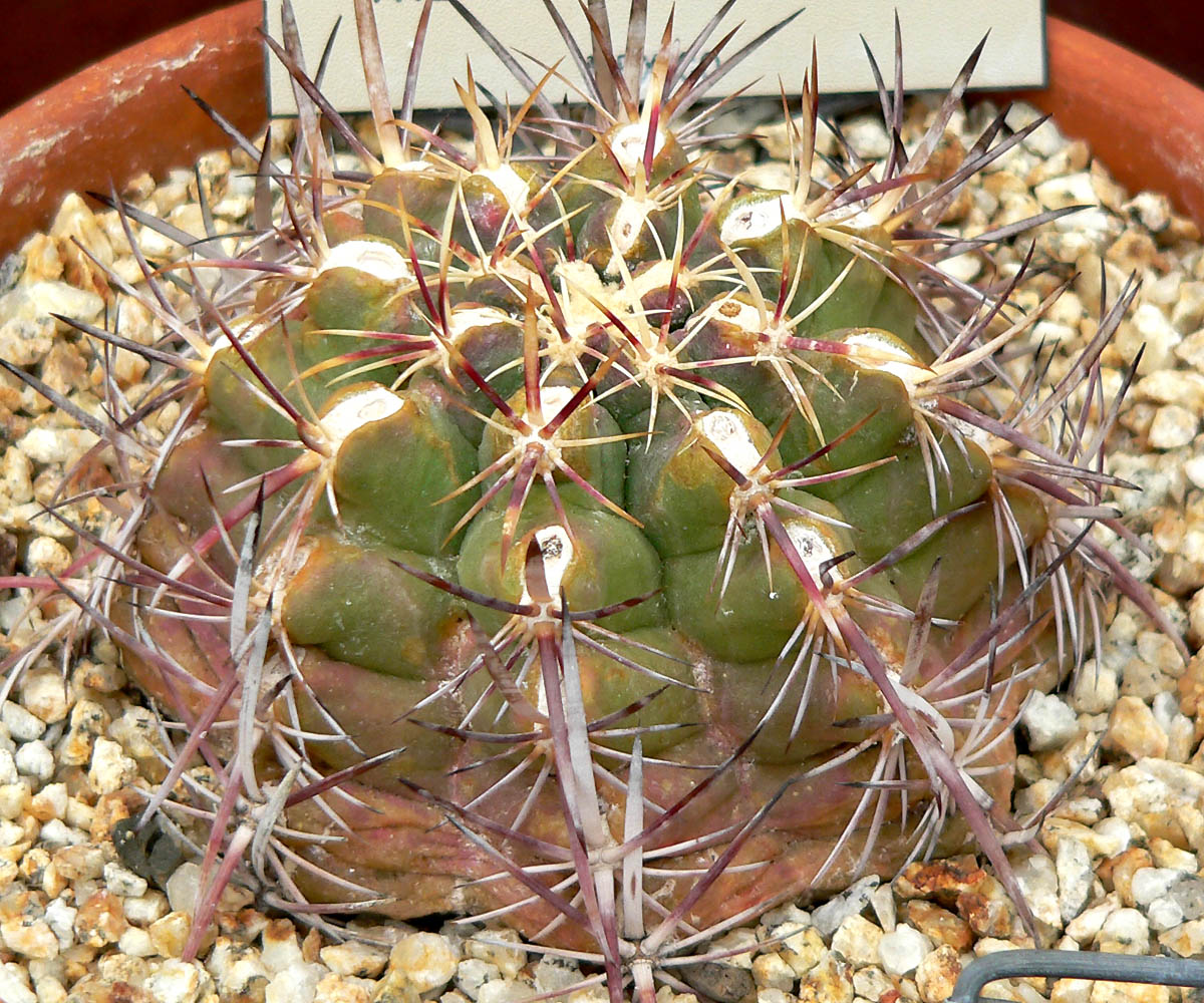 Photo of Thelocactus bicolor at the University of California Botanical Garden